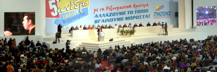 Panoramic view of the 5th Congress of Synaspismos, while candidate president Alexis Tsipras makes his speech.